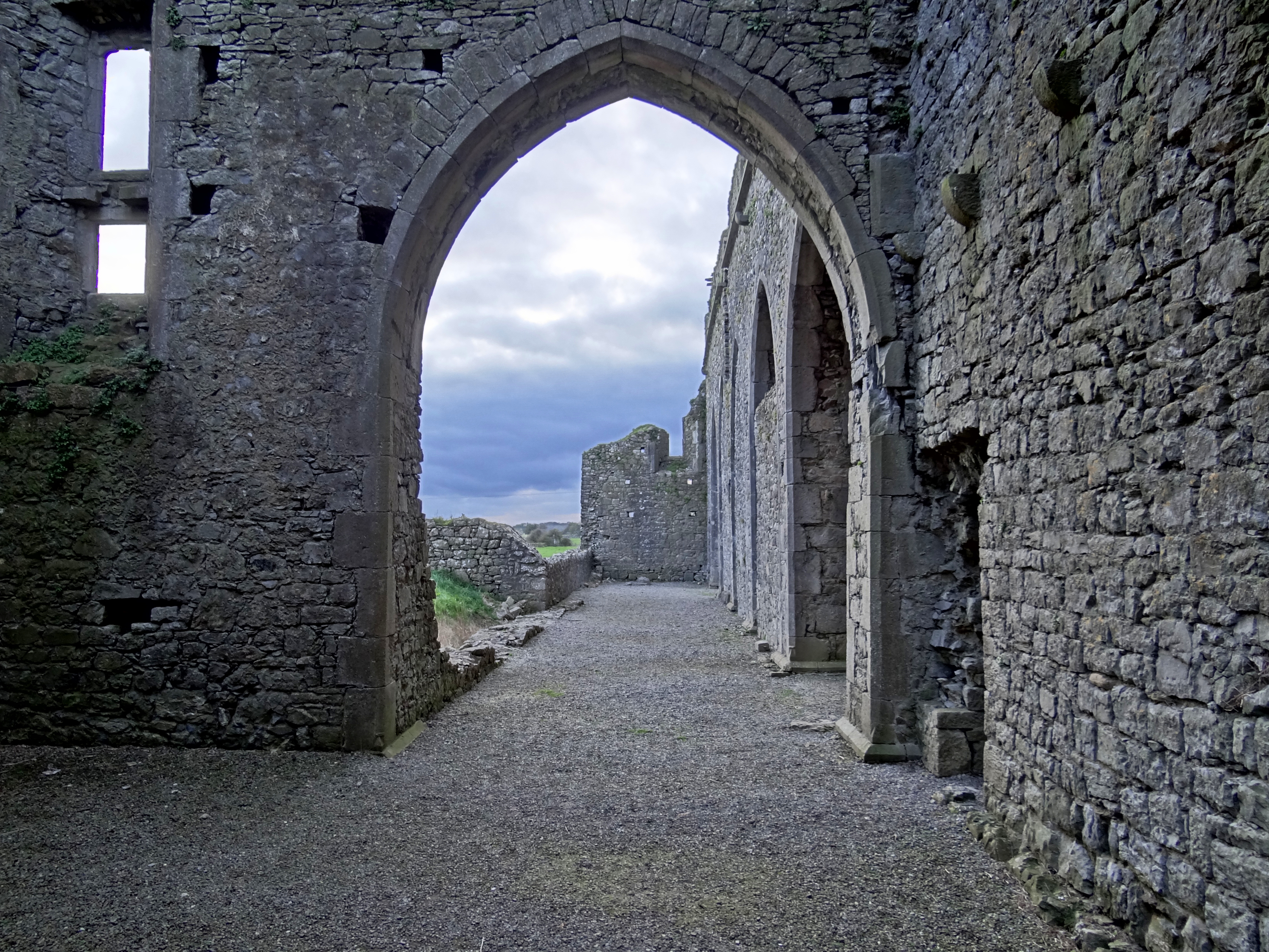 The archway on the side of the abbey that is away from the access road.